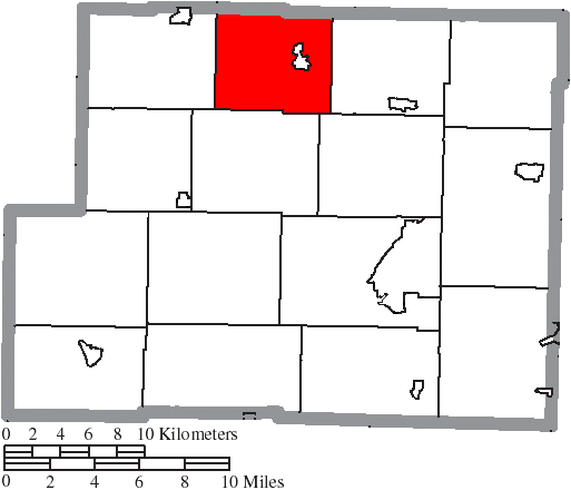 Map of the municipal and township boundaries of Harrison County, Ohio, United States, as of the 2000 census, with the location of North Township highlighted. Township borders are shown only in unincorporated areas in order to differentiate incorporated and unincorporated areas more clearly.